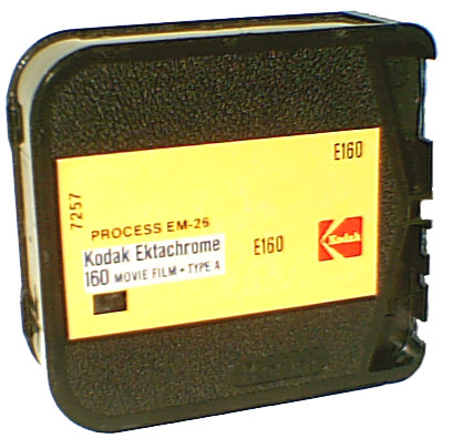 Super 8 cartridge of Ektachrome 160 A